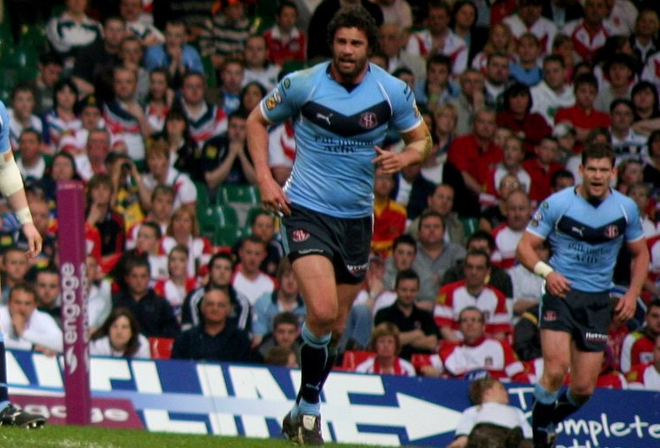 Jason Cayless